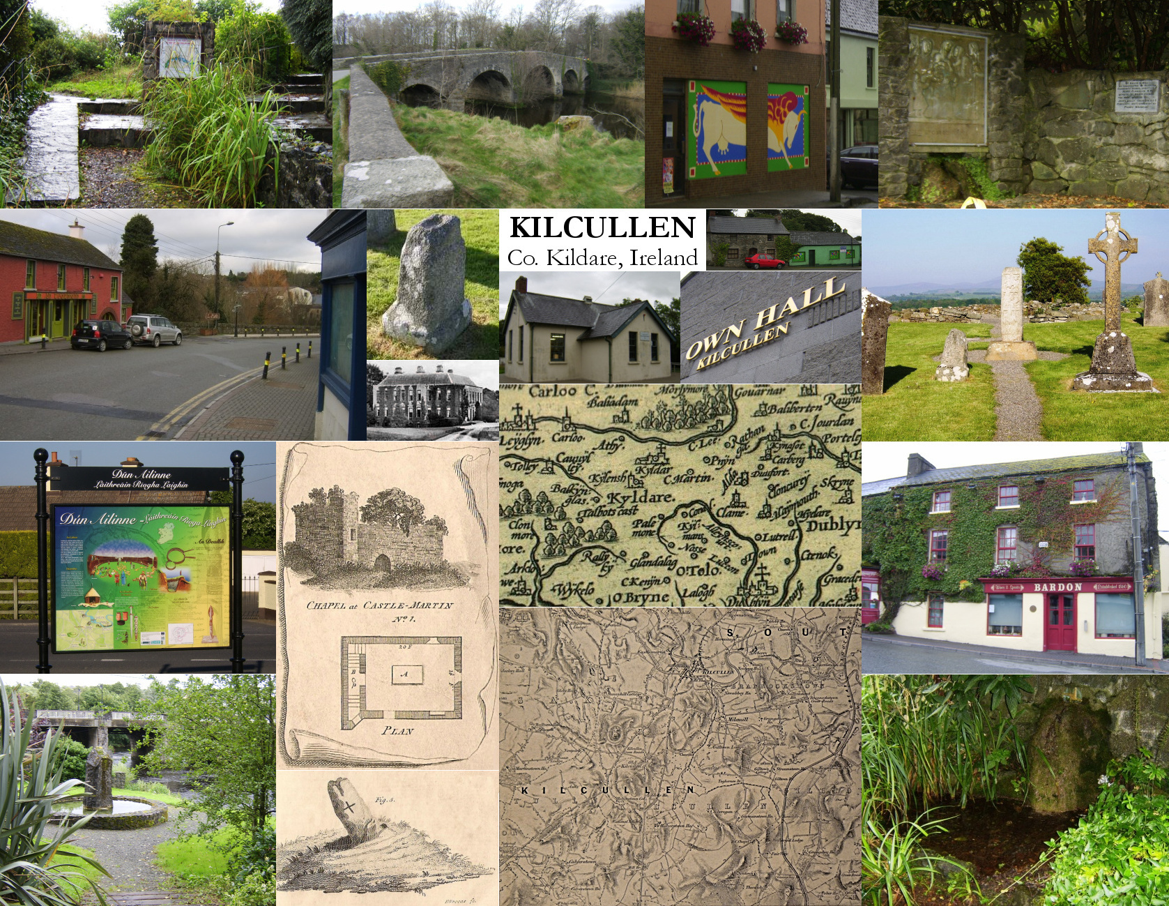 Postcard of scenes from Kilcullen (aka Kilcullen Bridge), Co. Kildare, Ireland, incl. part of the Valley Community Park, and St. Brigid's Holy Well there, "New" Harristown Bridge, parts of Main St., 18th and 19th century maps, the Dun Ailinne interpretative board, an early sketch and floorplan of St. Mary's Church, Castlemartin, and a small photo of Castlemartin House in the early 1900's, etc.